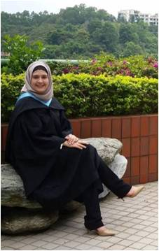 iktmc Bibi